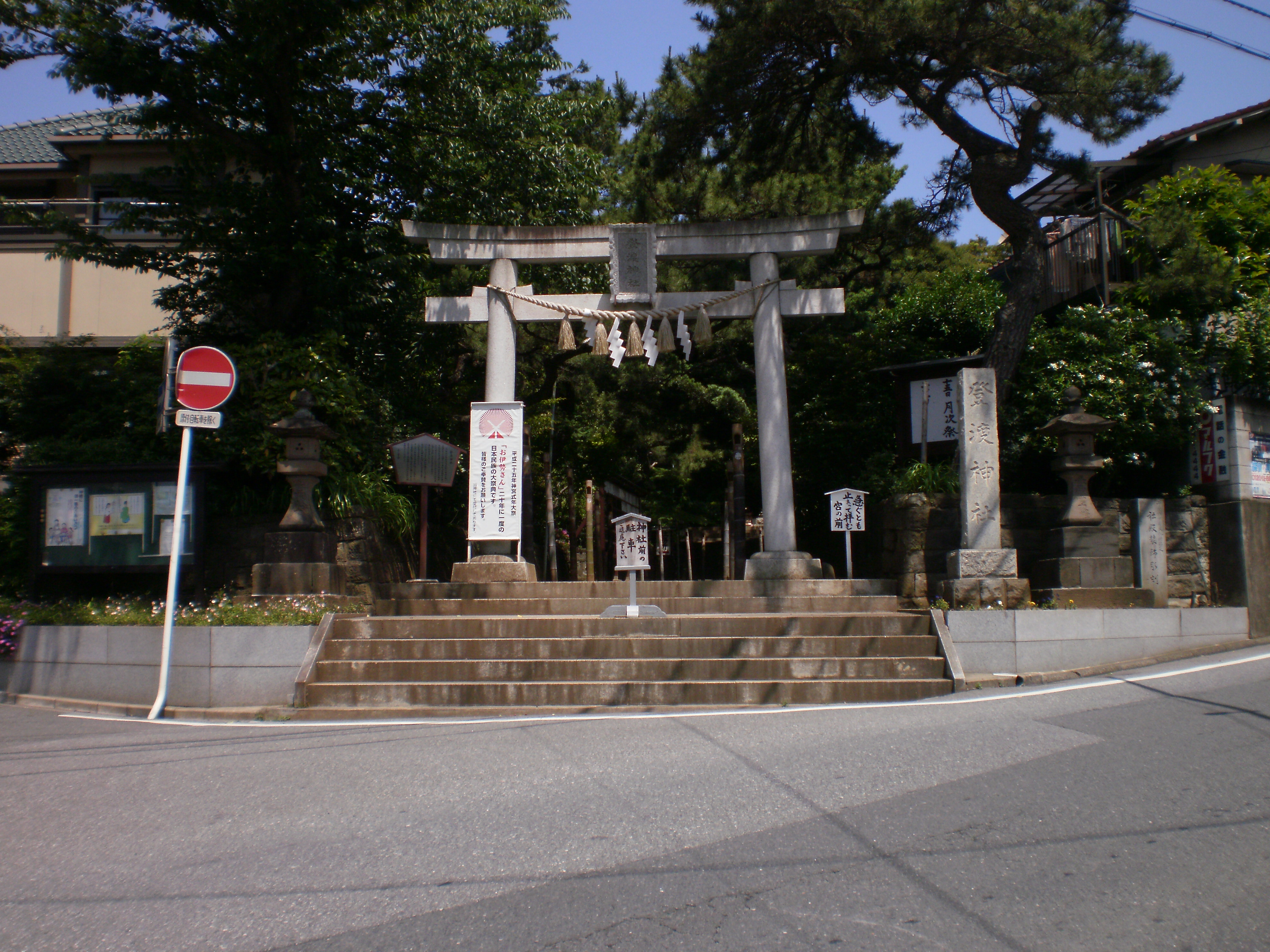 Towatari Jinja